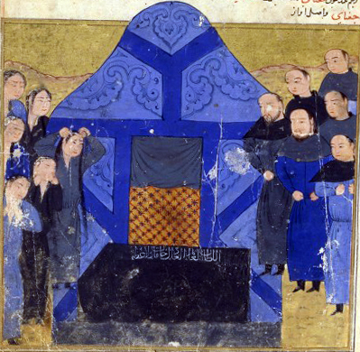 Funeral of Chagatai. Jami' al-tawarikh, Rashid al-Din.